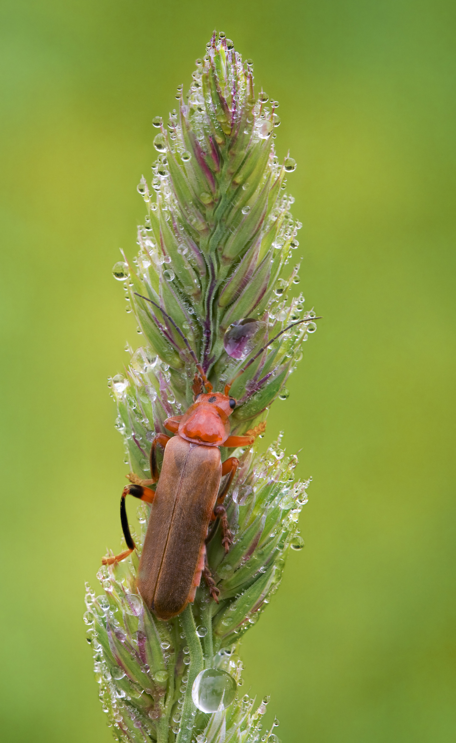 A soldier beetle (Cantharis livida) on Cocksfoot Grass (Dactylis sp.) The soldier beetles, or Cantharidae are relatively soft-bodied, straight sided beetles, related to the Lampyridae or firefly family, but being unable to produce light.